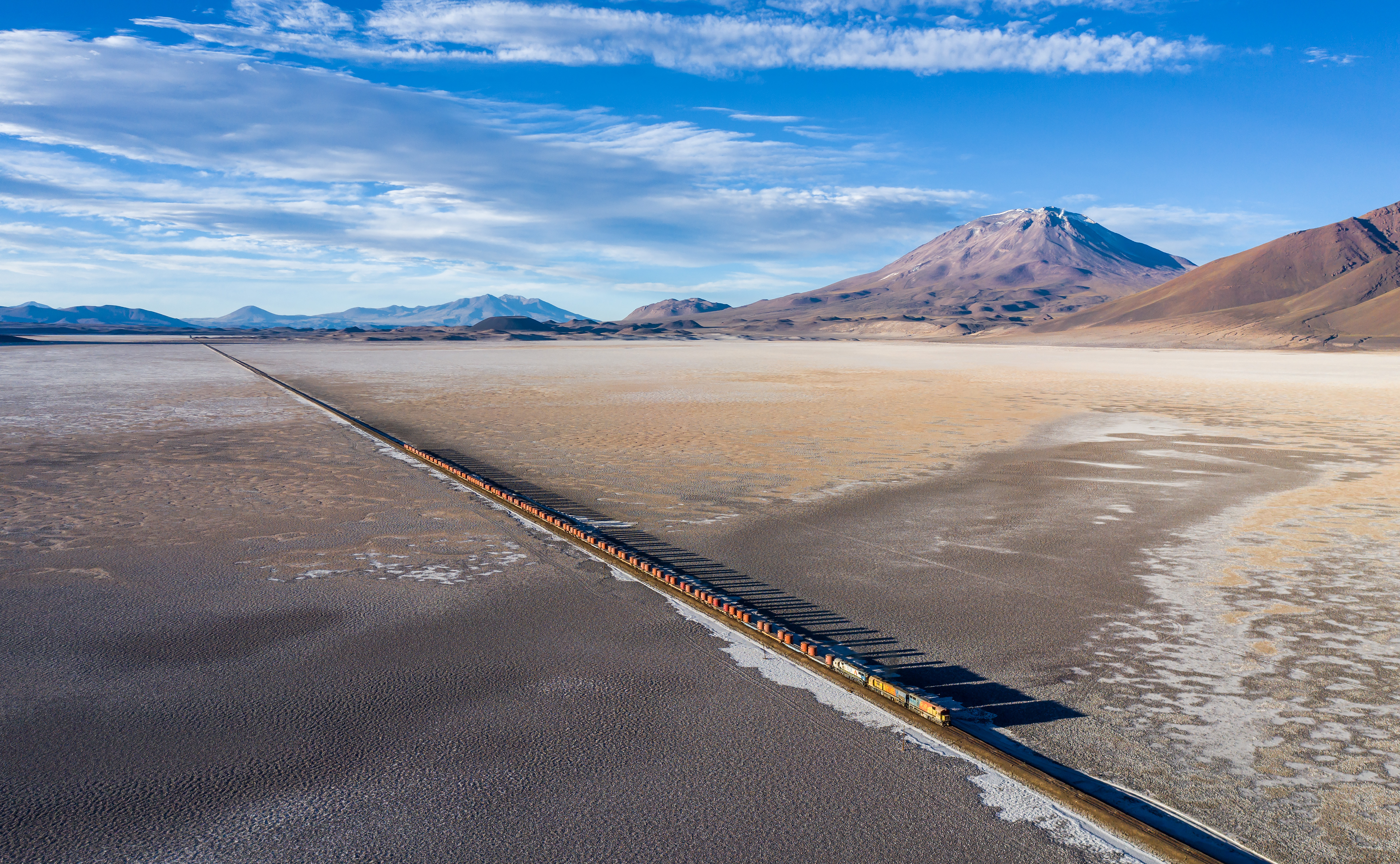 FCAB's EMD GT22CU-3 2401, EMD GT22CU 2501 and Clyde GL26C-2 2005 haul a load of lead ore from Bolivia to Mejillones. The train just crosses the Carcote salt flat at 3690 meters asl, with the active stratovolcano "Ollagüe" in the background.